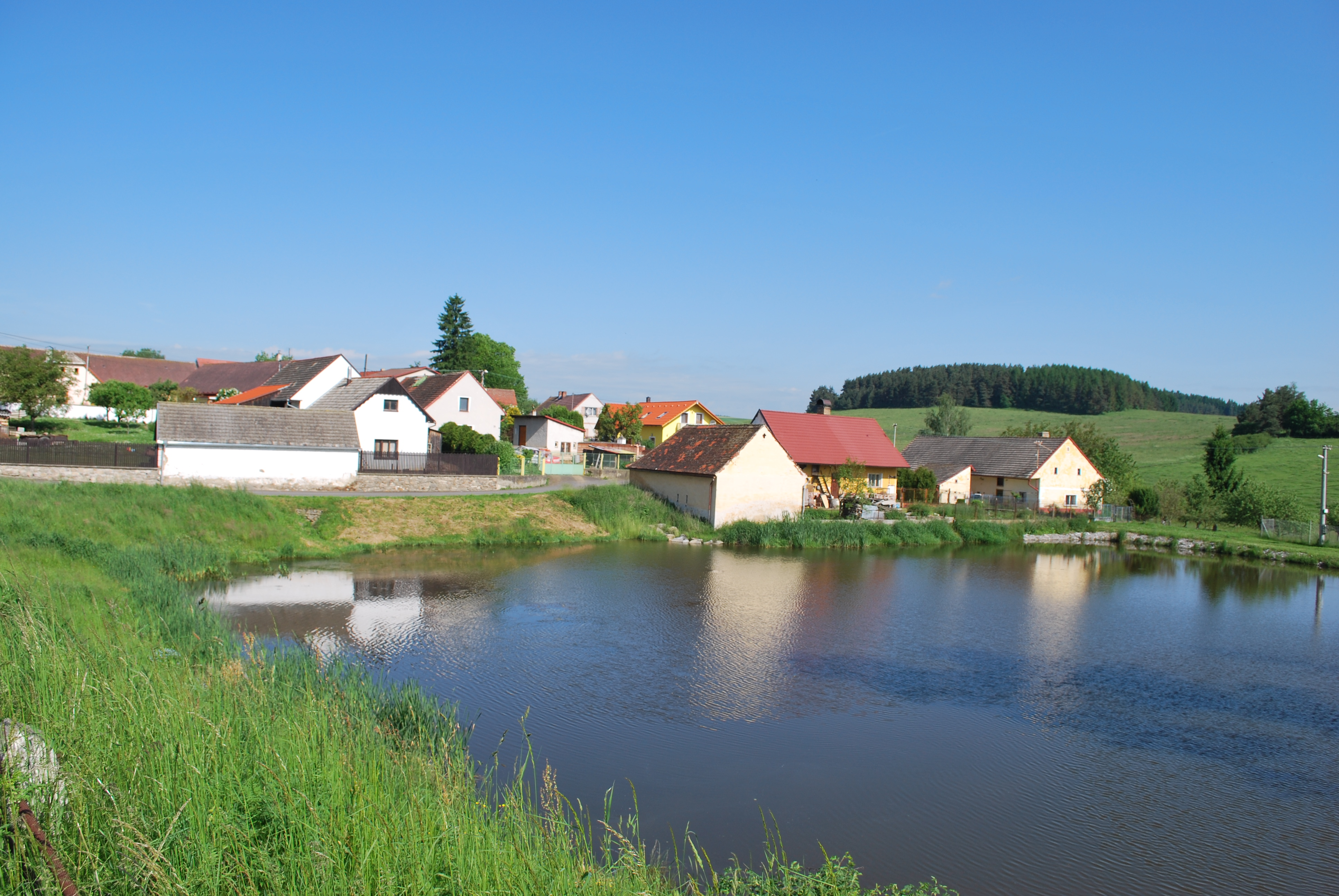 Frymburk village in Klatovy District, Czech republic. This photograph was taken within the scope of the 'Czech Municipalities Photographs' grant. - Google Maps - Google Earth